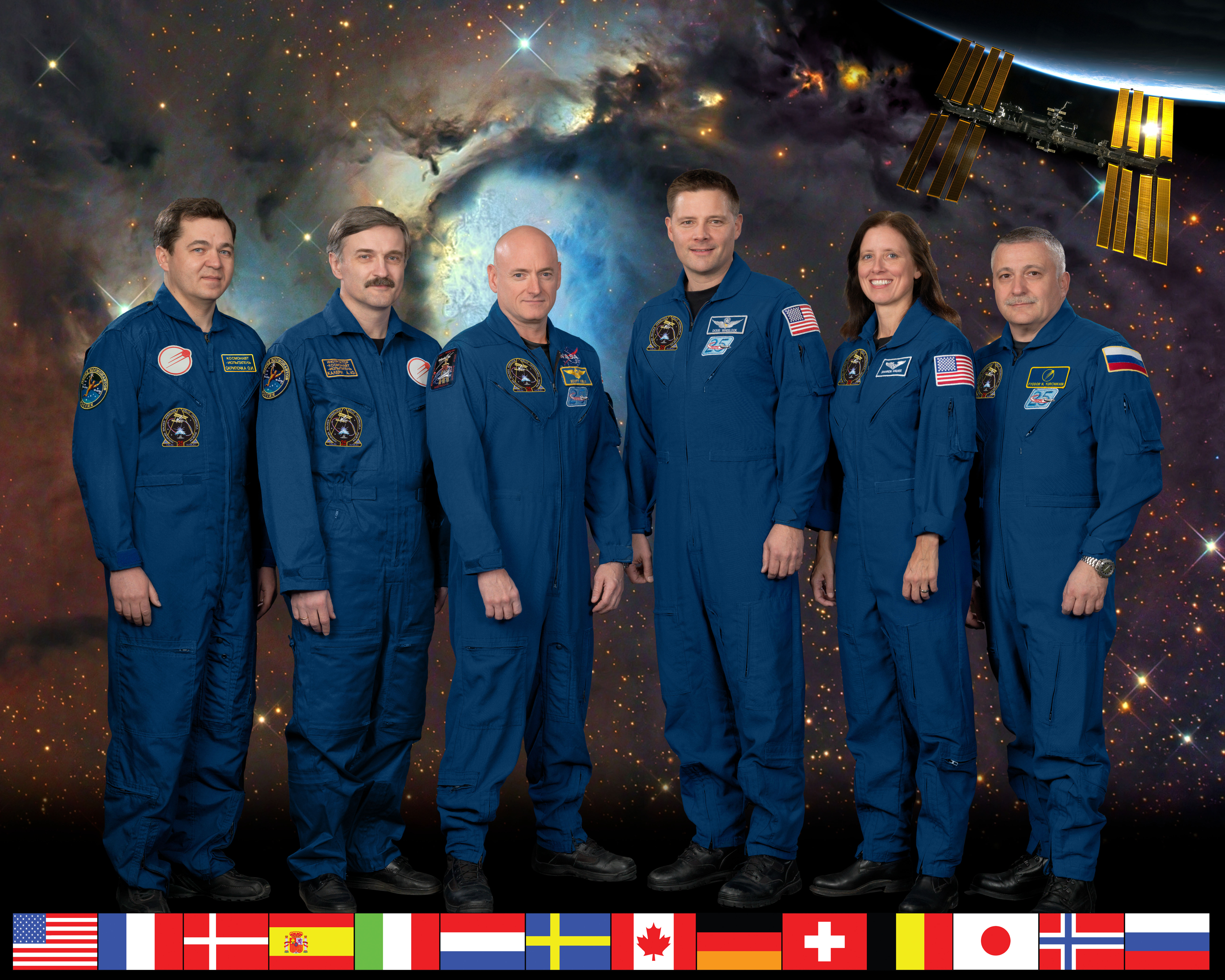 Expedition 25 crew members take a break from training at NASA's Johnson Space Center to pose for a crew portrait. Pictured at center right is NASA astronaut Doug Wheelock, commander. Also pictured (from the left) are Russian cosmonauts Oleg Skripochka and Alexander Kaleri; NASA astronauts Scott Kelly and Shannon Walker; along with Russian cosmonaut Fyodor Yurchikhin, all flight engineers. The portrait's background is a photograph of the M78 nebula and its reflecting dust clouds in the constellation Orion as captured by astrophotographer Ignacio de la Cueva Torregrosa.